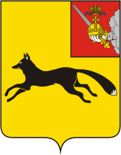 Totma (Vologda oblast), coat of arms